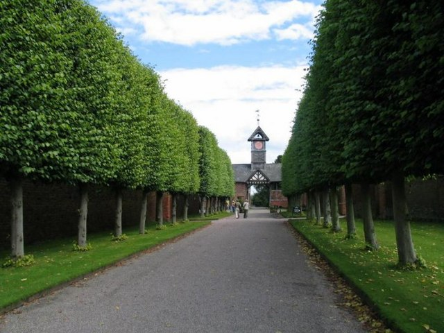 Arley Hall Lime Walk Lime trees pruned (pleached)as if they are a hedge on stilts.